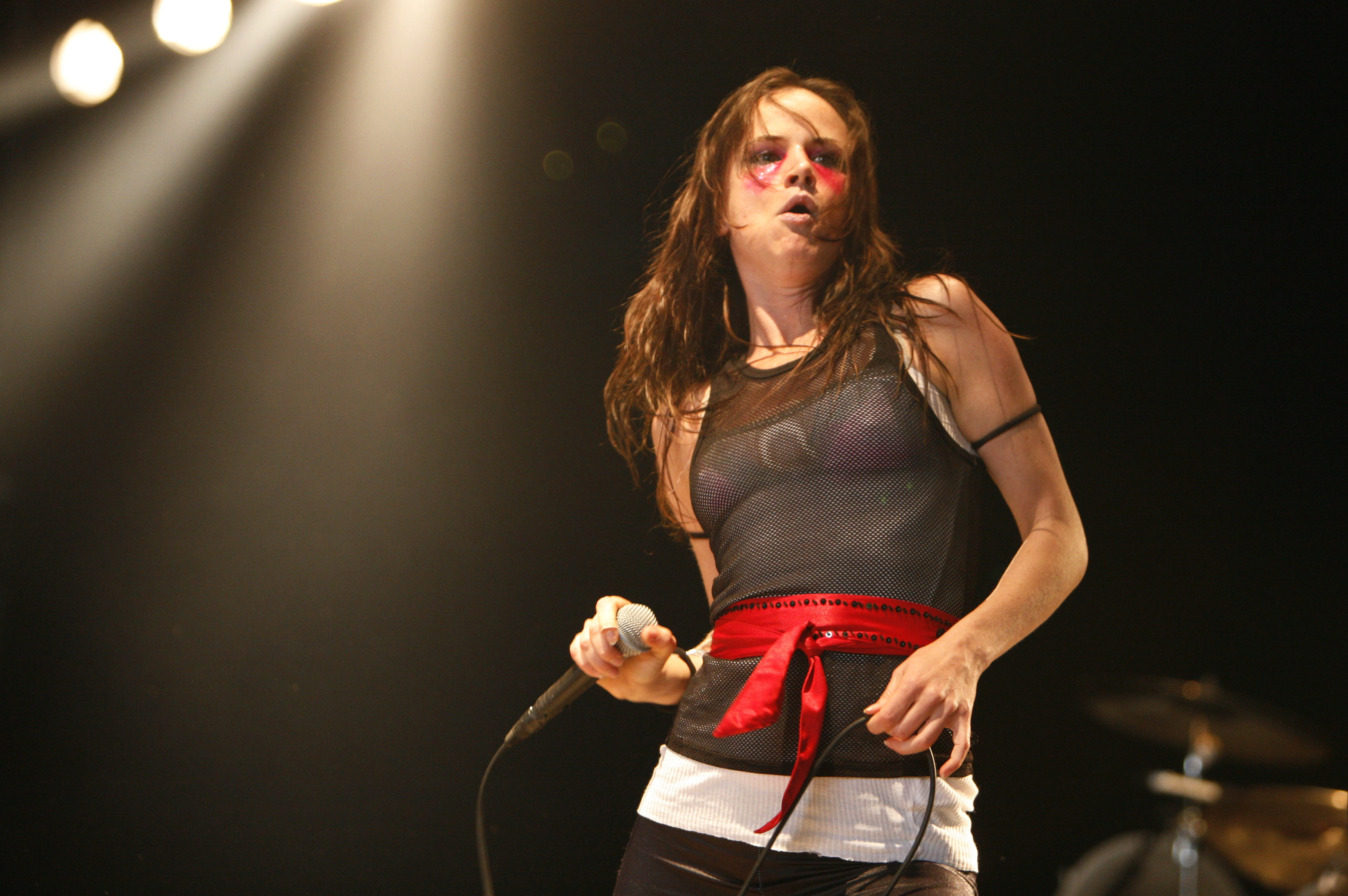 Juliette Lewis from Juliette and the Licks at the Eurockéennes of 2007.